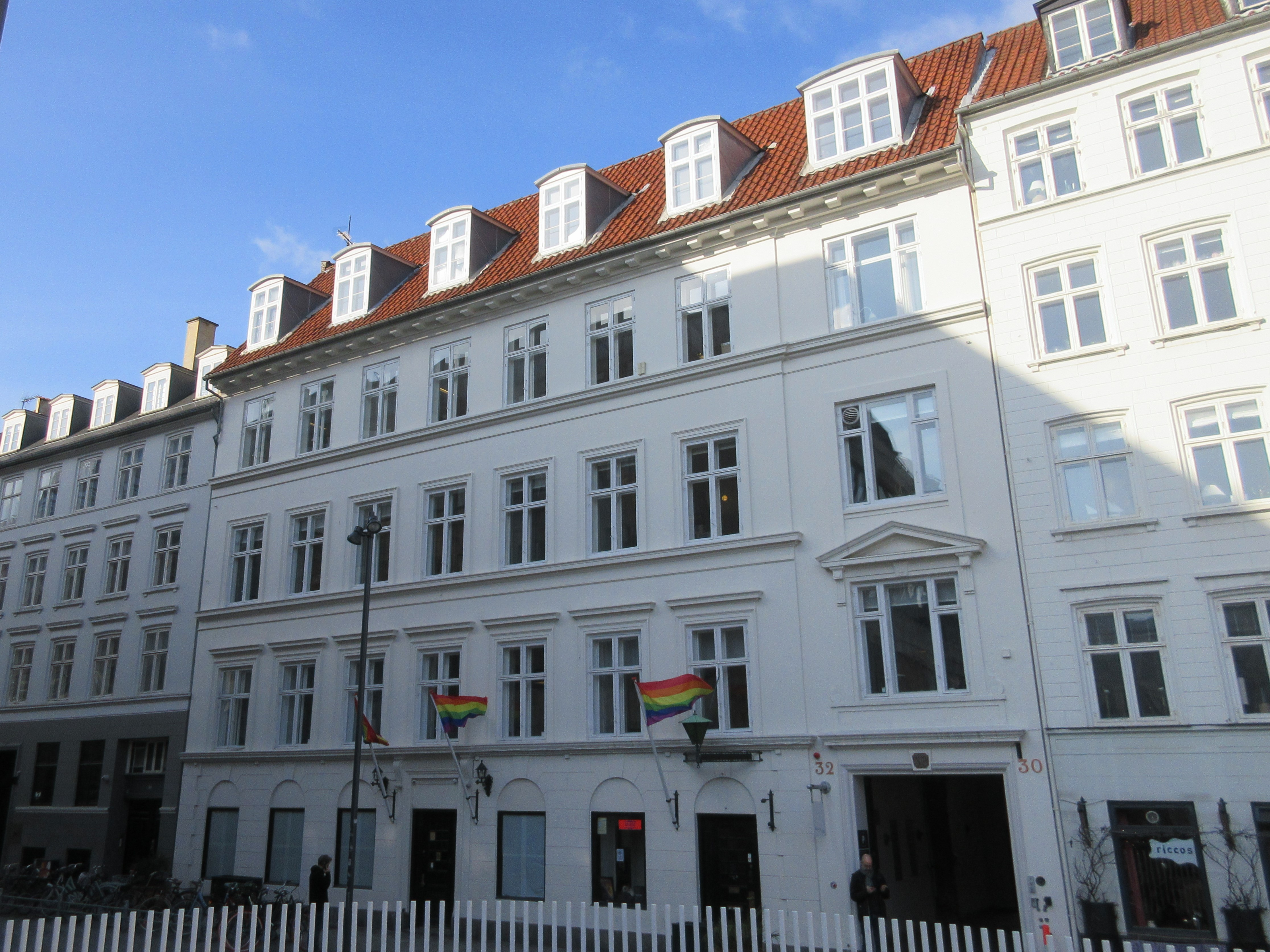 Hauser Plads 32 in Copenhagen, Denmark